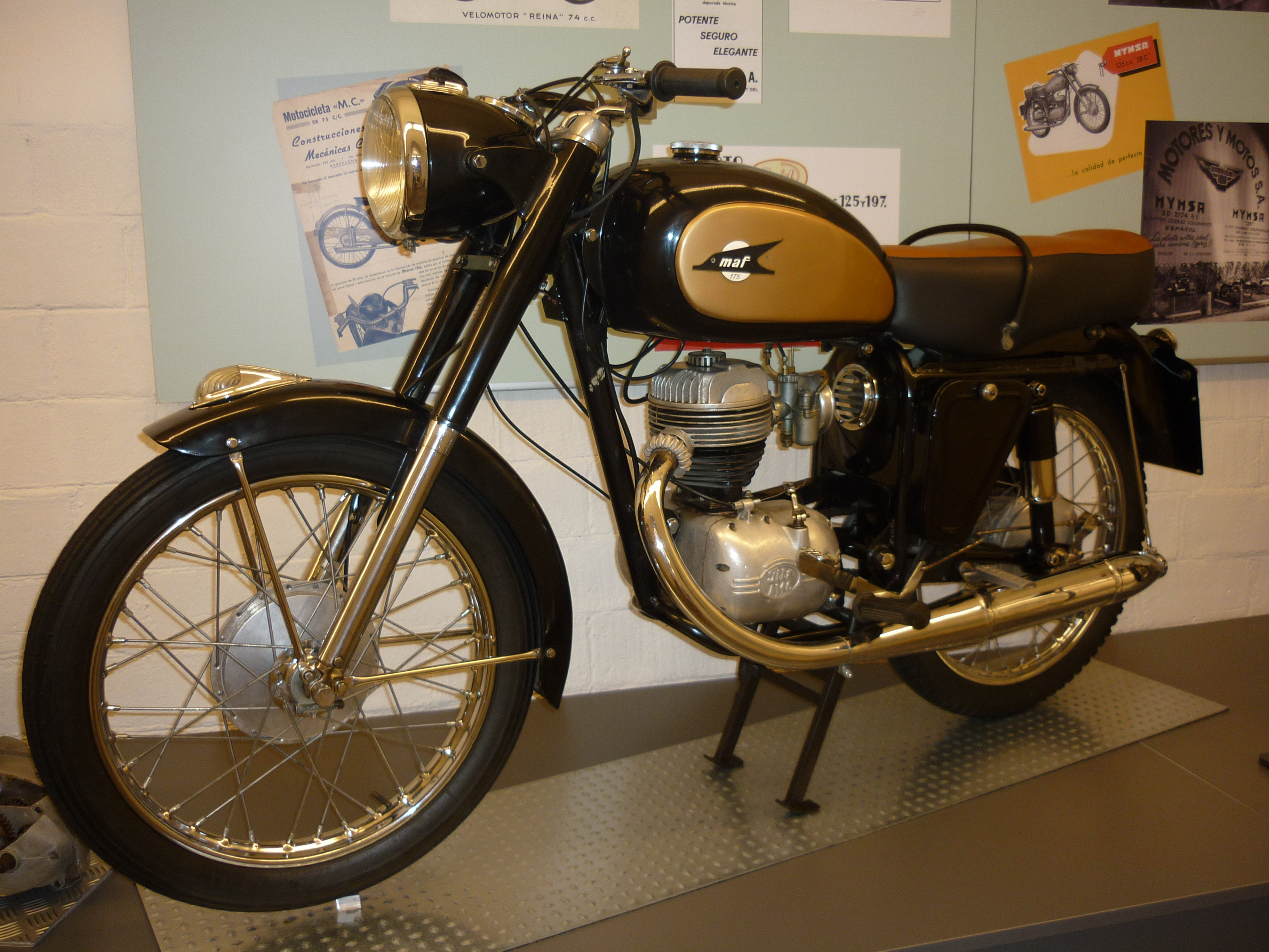 MAF 125cc (1958). Built in Figueres (Catalonia)